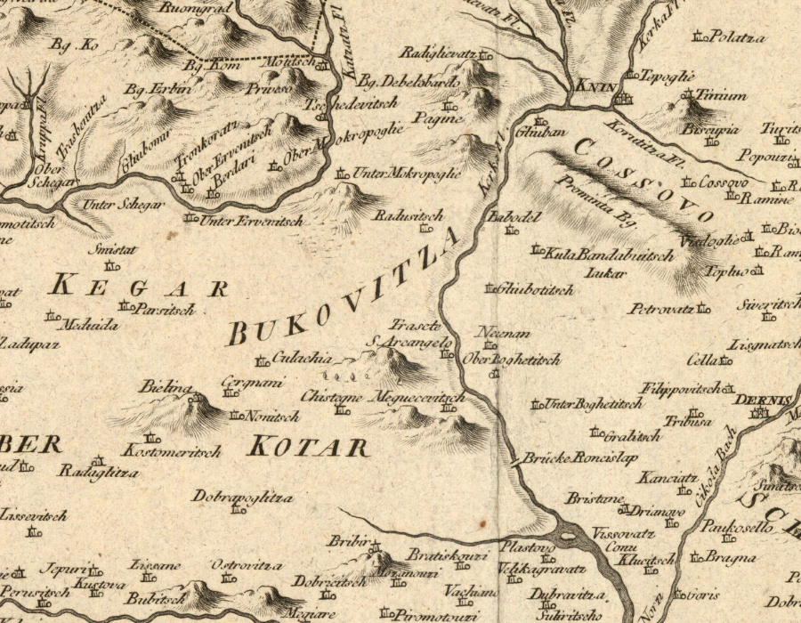 Westlicher Theil von Dalmatien, Engelmann Johann Wenzel, Wien, 1789.